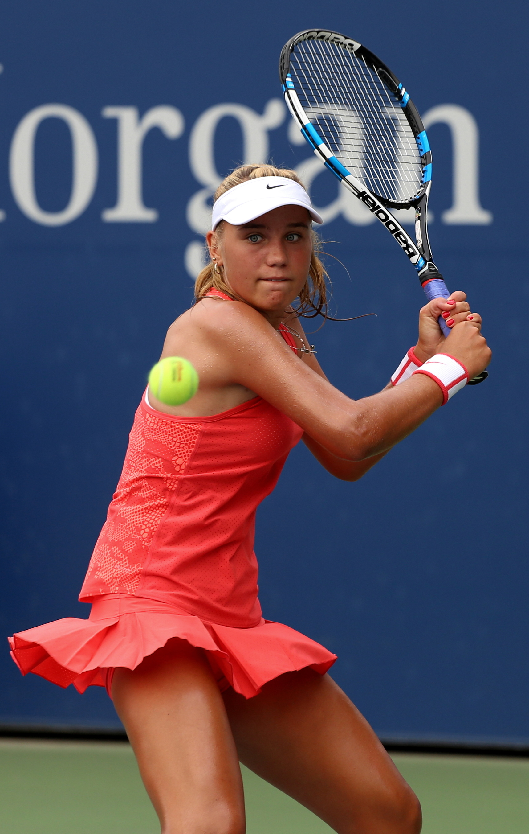 Sofia Kenin at the 2015 US Junior Open